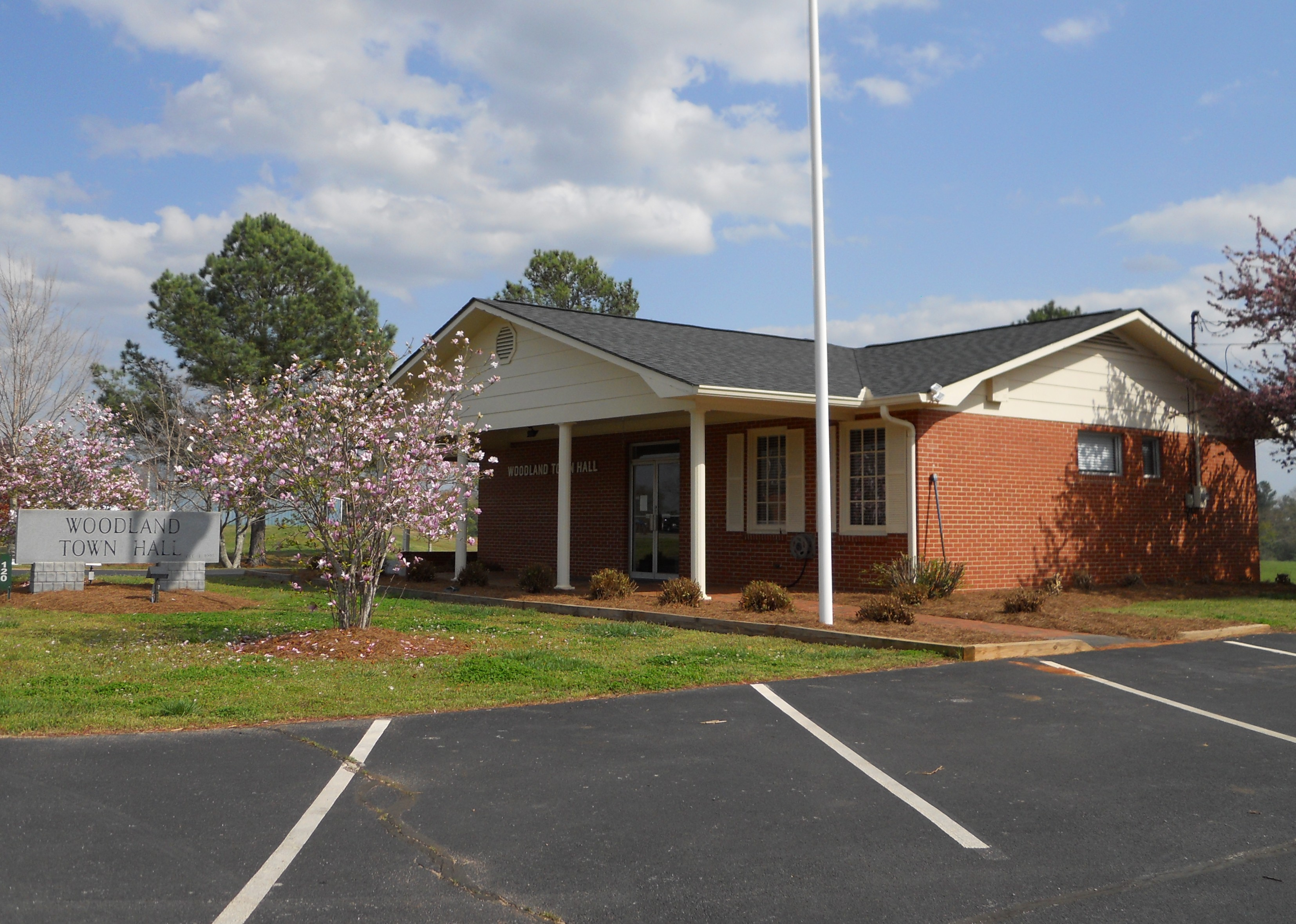 This is a photograph of the town hall in Woodland, Alabama